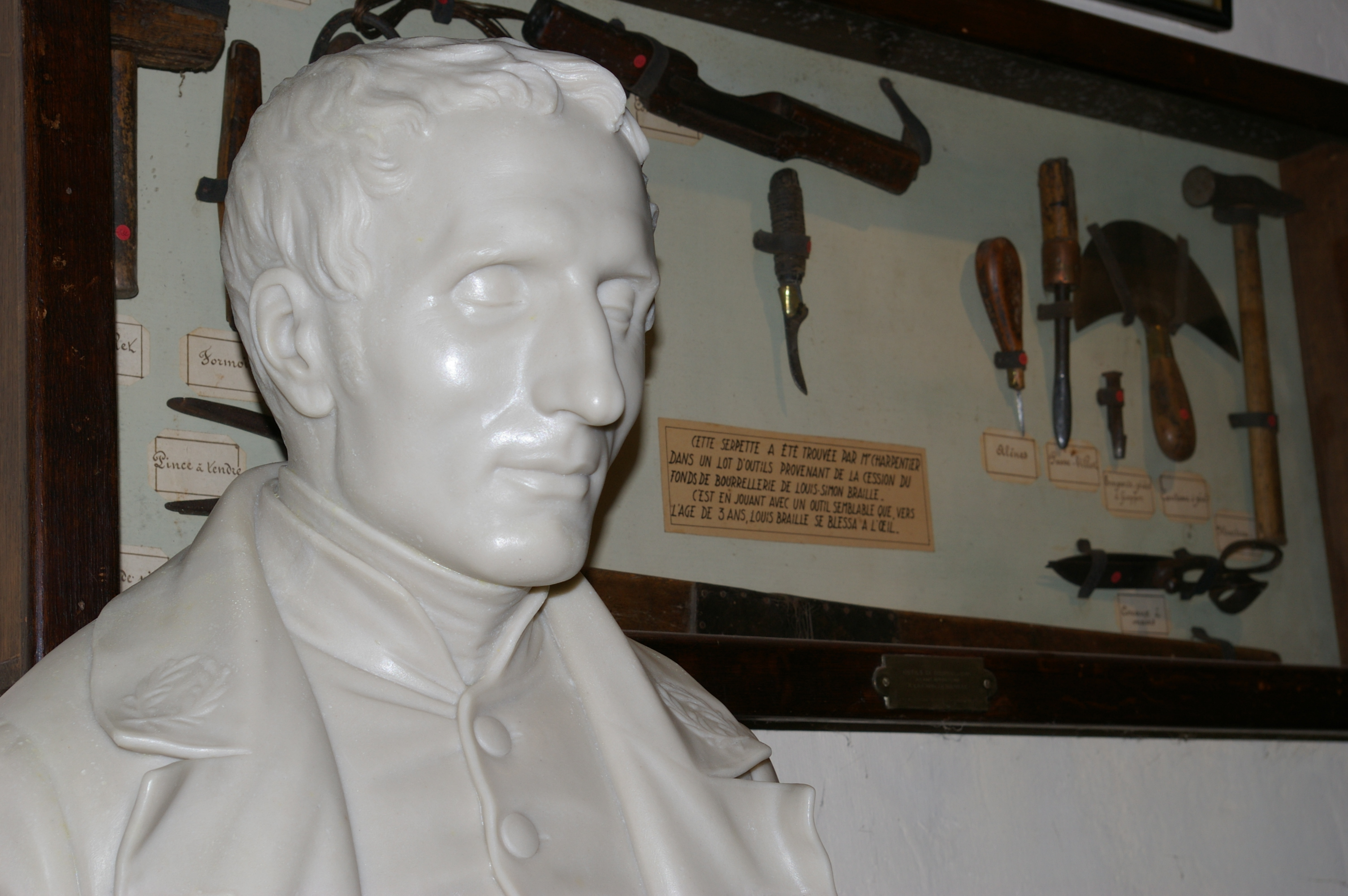 House of Louis BRAILLE